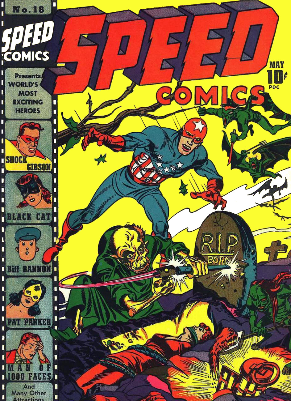 Captain Freedom storms into action on the cover of Speed Comics number 18 (Harvey, May 1942). After Joe Simon and Jack Kirby joined the Harvey bullpen, Captain Freedom began to take on the appearance of his main inspiration, Captain America.